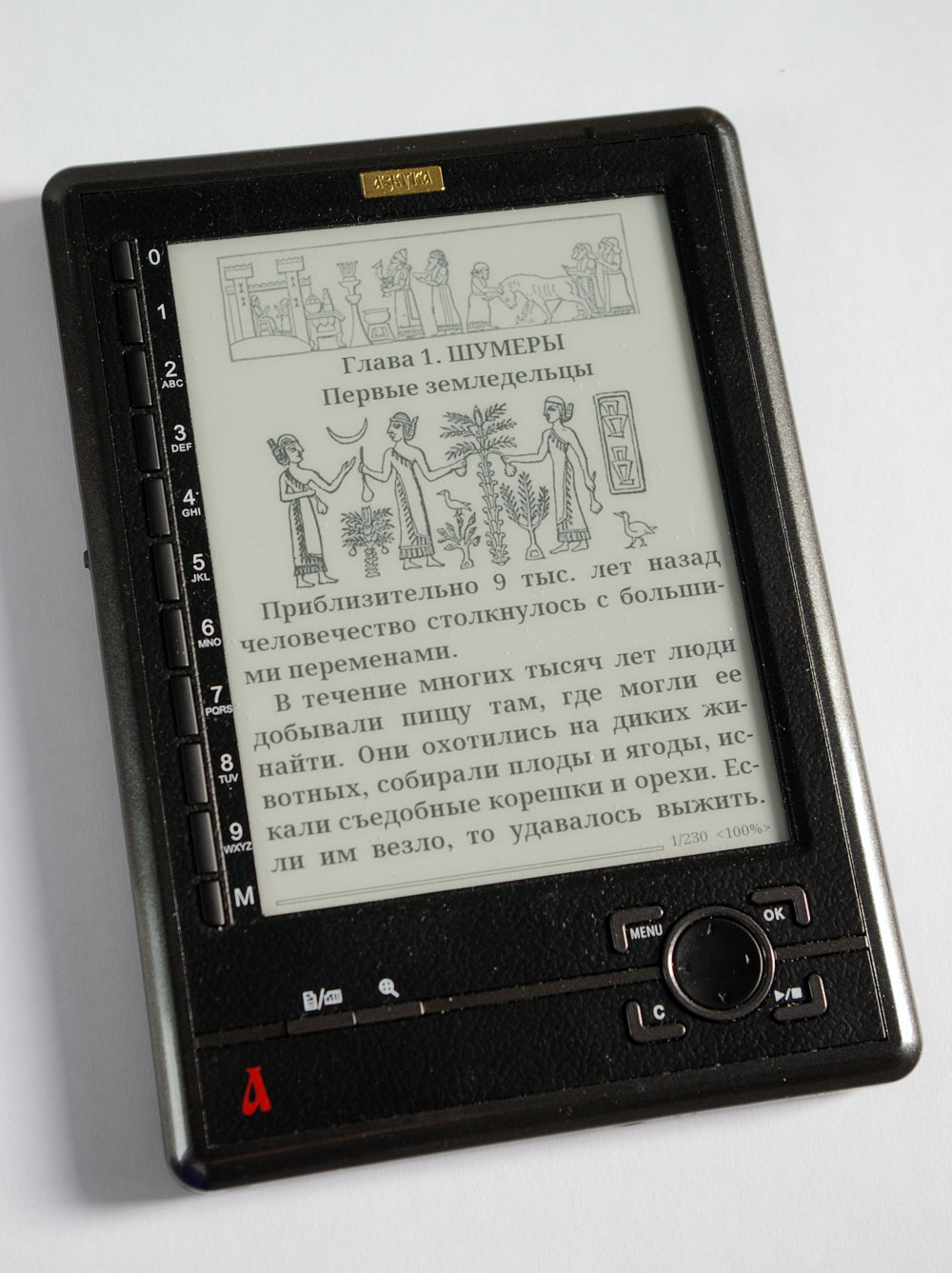 Azbooka n516 electronic book (2009)